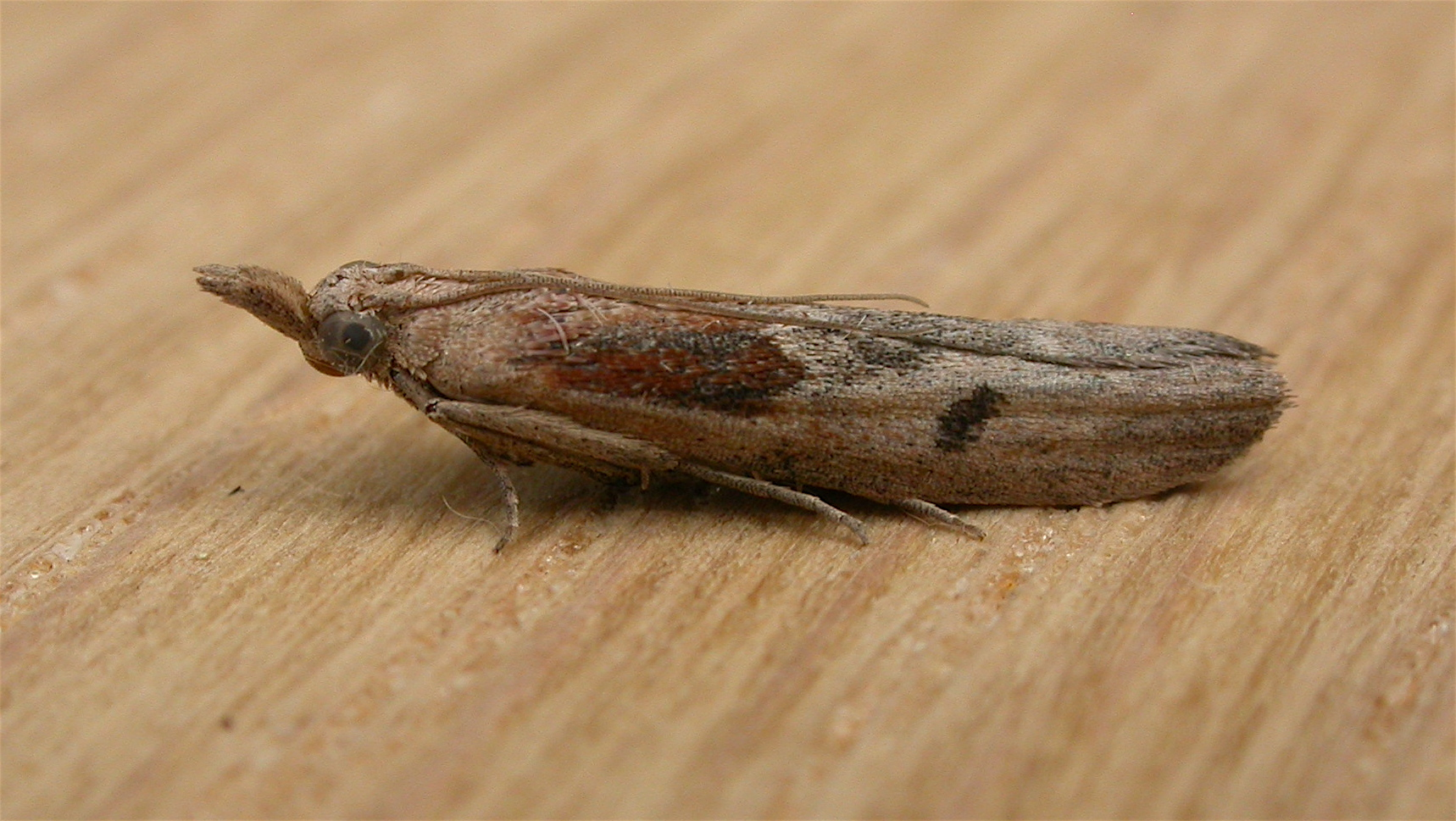 Undescribed species (no available genus), to MV light, Aranda, ACT, 21/22 November 2008